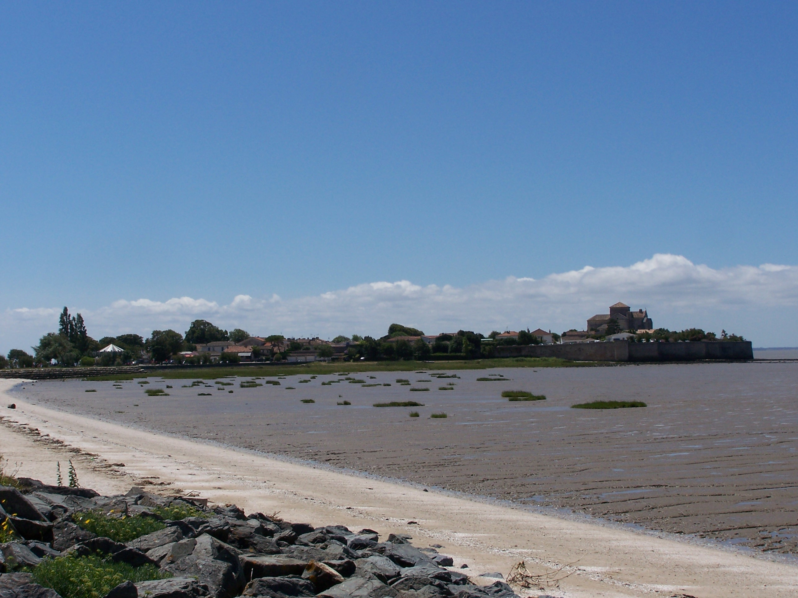 Northwestern bay of Talmont-sur-Gironde (Charente-Maritime, France)